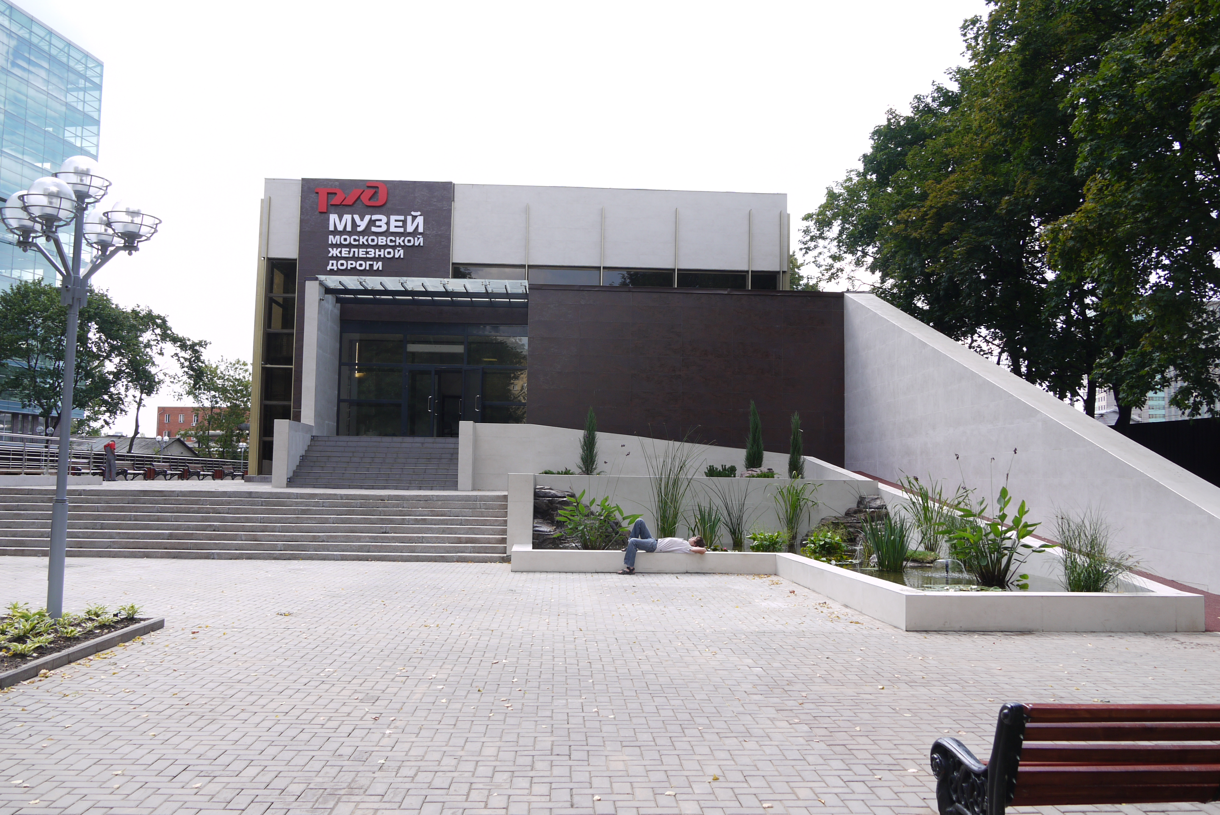 Artifacts at the Museum of the Moscow Railway at Paveletsky Rail Terminal